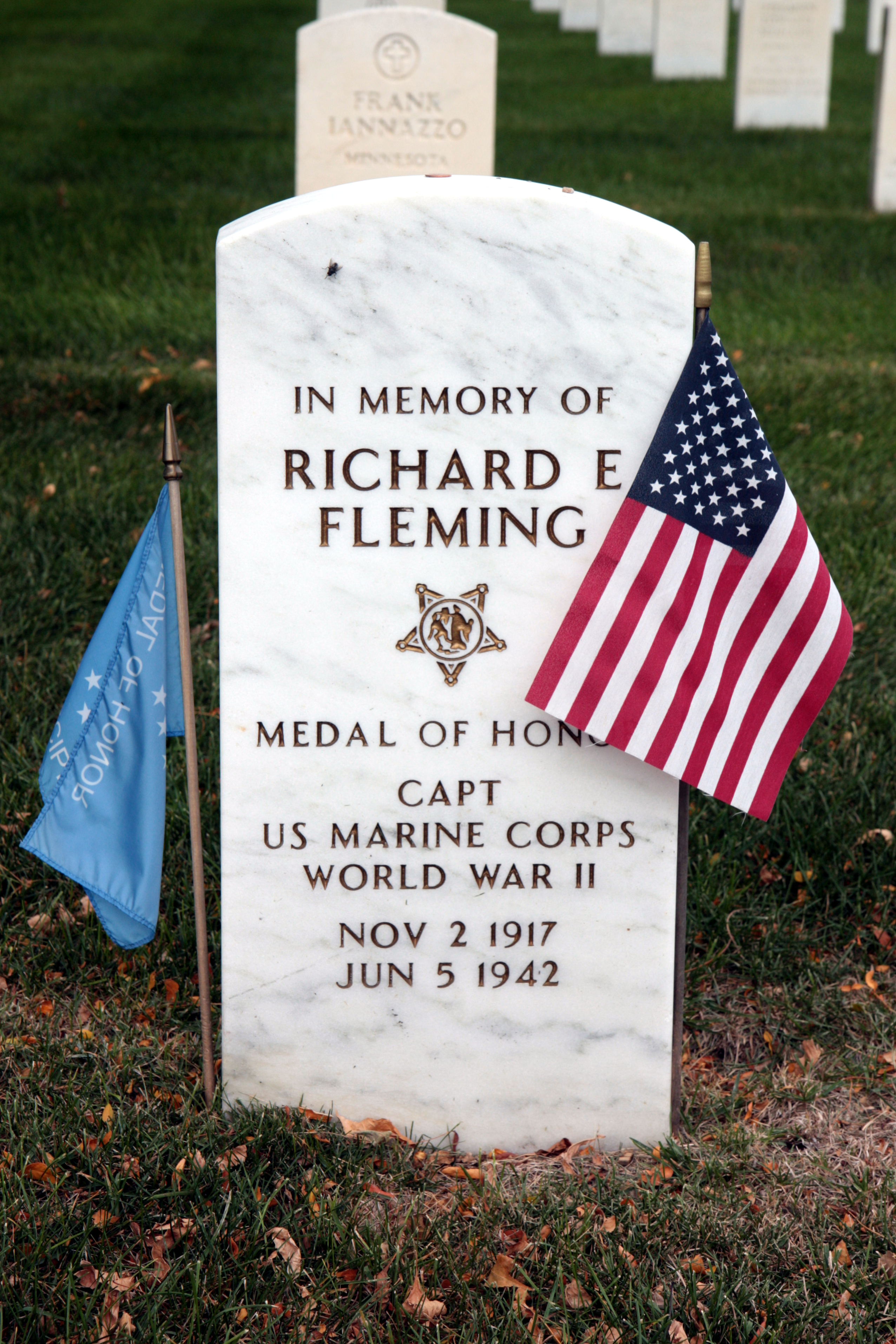 Richard E Fleming headstone in Fort Snelling National Cemetery